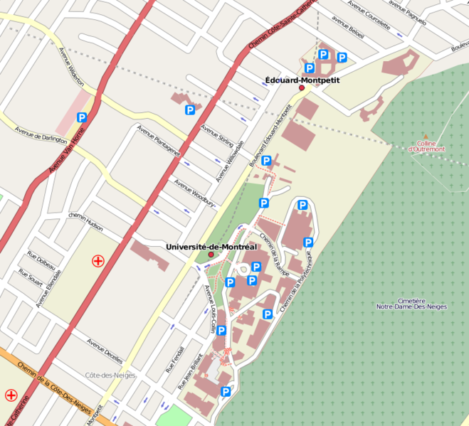 This map may be incomplete, and may contain errors. Don't rely solely on it for navigation.